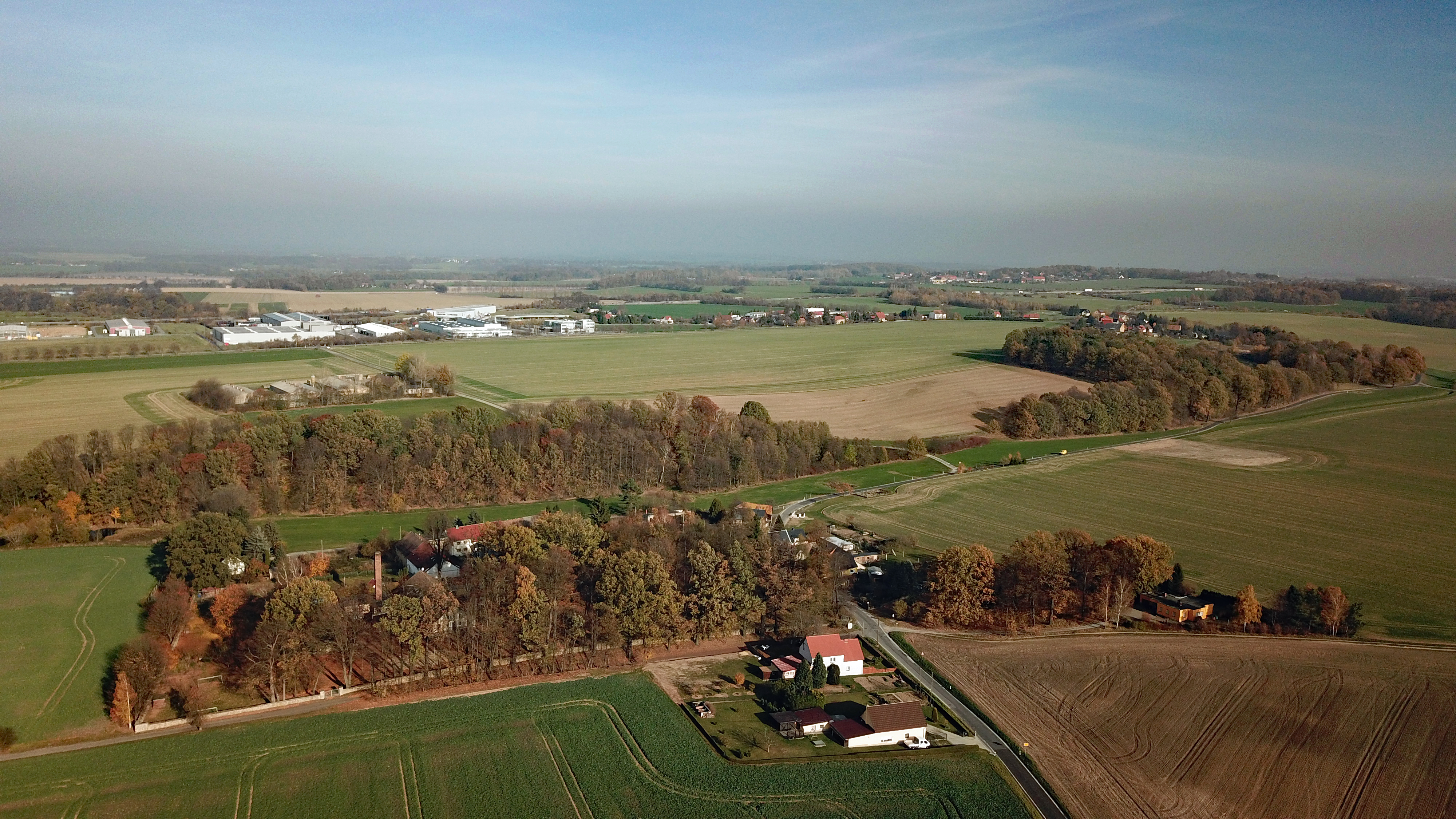 Döberkitz (Bautzen, Saxony, Germany) Hornjoserbsce: Powětrowy wobraz Debrikec